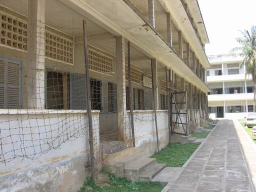 Own work taken in the Tuol Sleng Museum with permission from the Museum administration on March 13, 2006. Donated to the Wikipedia system and it can be considered wikipedian document. Albeiro Rodas, Cambodia, July 2006.